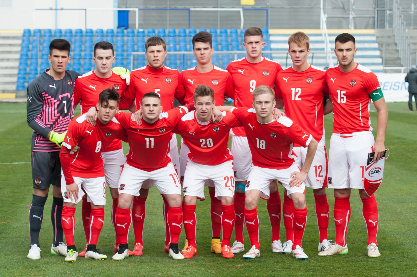 European Under-19 Championships 2015 Elite Round, Austria vs. Croatia, 28/03/2015 Wiener Neustadt, Lower Austria